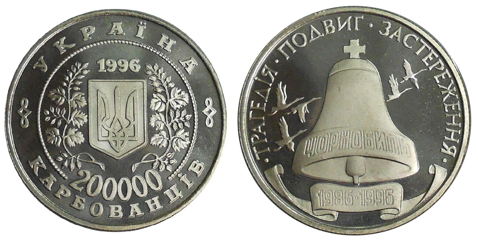 Ukrainian commemorative Cu-Ni 200,000 karbovanets coin (mass: 14.35g, mf: N/A, diameter: 33mm, quality: proof) of the Chernobyl disaster. Reverse shows a bell inscribed with the Ukrainian text "ЧОРНОБИЛЬ" (Chernobyl) set in the center of the coin's field, the dates "1986-1996" set on a banner, five flying cranes - three to the left and two to the right of the bell respectively - in the background, and the Ukrainian text "ТРАГЕДІЯ - ПОДВИГ - ЗАСТЕРЕЖЕННЯ" (Tragedy - Heroic deed - Warning). Obverse shows the coat of arms of Ukraine flanked by two sprays of Viburnum opulus (guelder rose) and the mintage date of the coin (1996) all set in a ring of beads, the word "Ukraine" (УКРАЇНА) in the Ukrainian language, and the coin's denomination of "200000 КАРБОВАНЦІВ" (200000 karbovanets) in Ukrainian. Note: I am not familiar with the Ukrainian language, and therefore some of the translated words might be literal in nature and missing their figurative meanings. Kindly contribute a better translation if it warrants it.